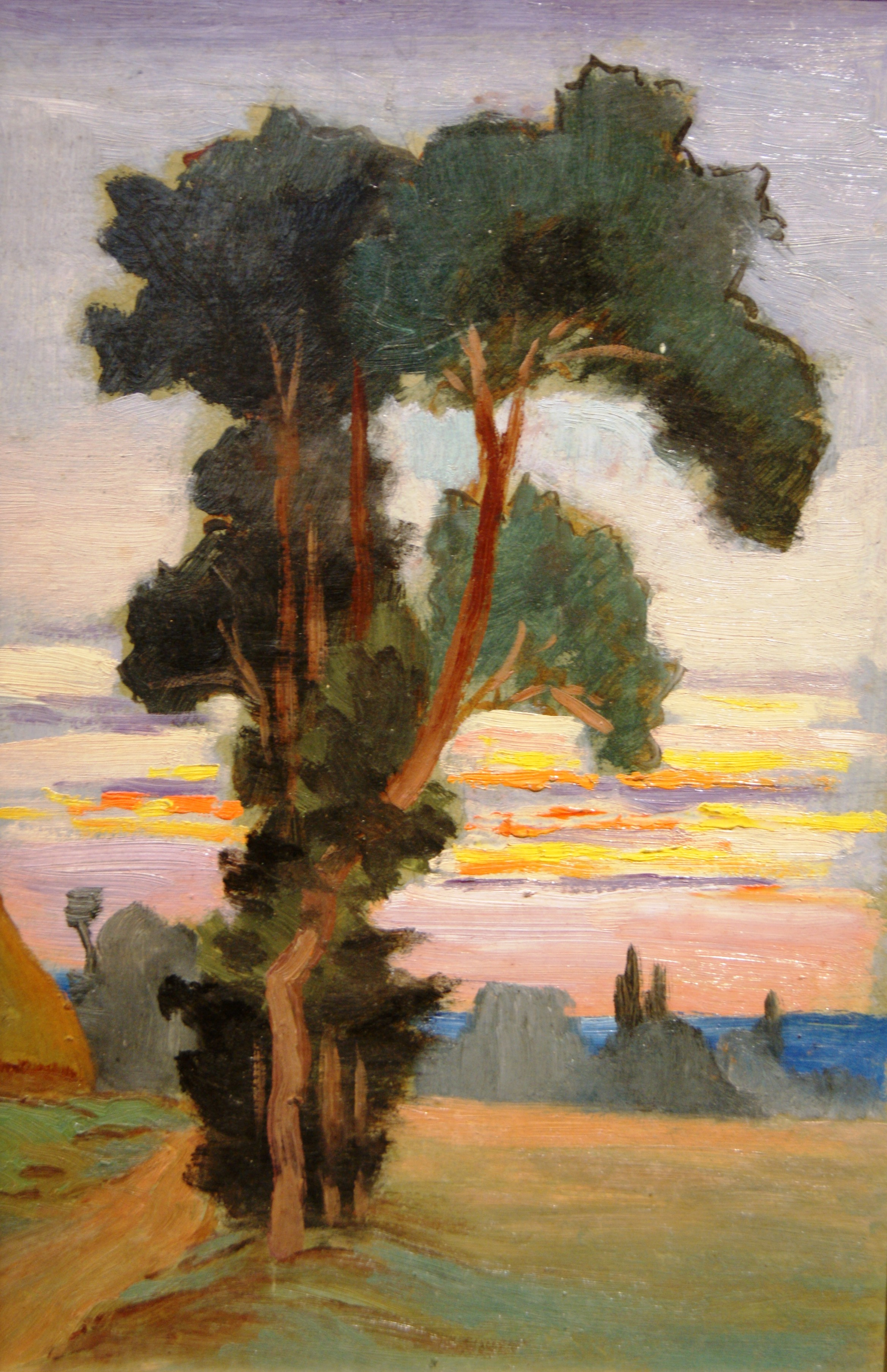 Léo Gausson (1860-1944) 1893 - Huile sur carton Licensing This is a faithful photographic reproduction of a two-dimensional, public domain work of art. The work of art itself is in the public domain for the following reason: The author died in 1944, so this work is in the public domain in its country of origin and other countries and areas where the copyright term is the author's life plus 70 years or less. This work is in the public domain in the United States because it was published (or registered with the U.S. Copyright Office) before January 1, 1924. This file has been identified as being free of known restrictions under copyright law, including all related and neighboring rights. The official position taken by the Wikimedia Foundation is that "faithful reproductions of two-dimensional public domain works of art are public domain".This photographic reproduction is therefore also considered to be in the public domain in the United States. In other jurisdictions, re-use of this content may be restricted; see Reuse of PD-Art photographs for details.